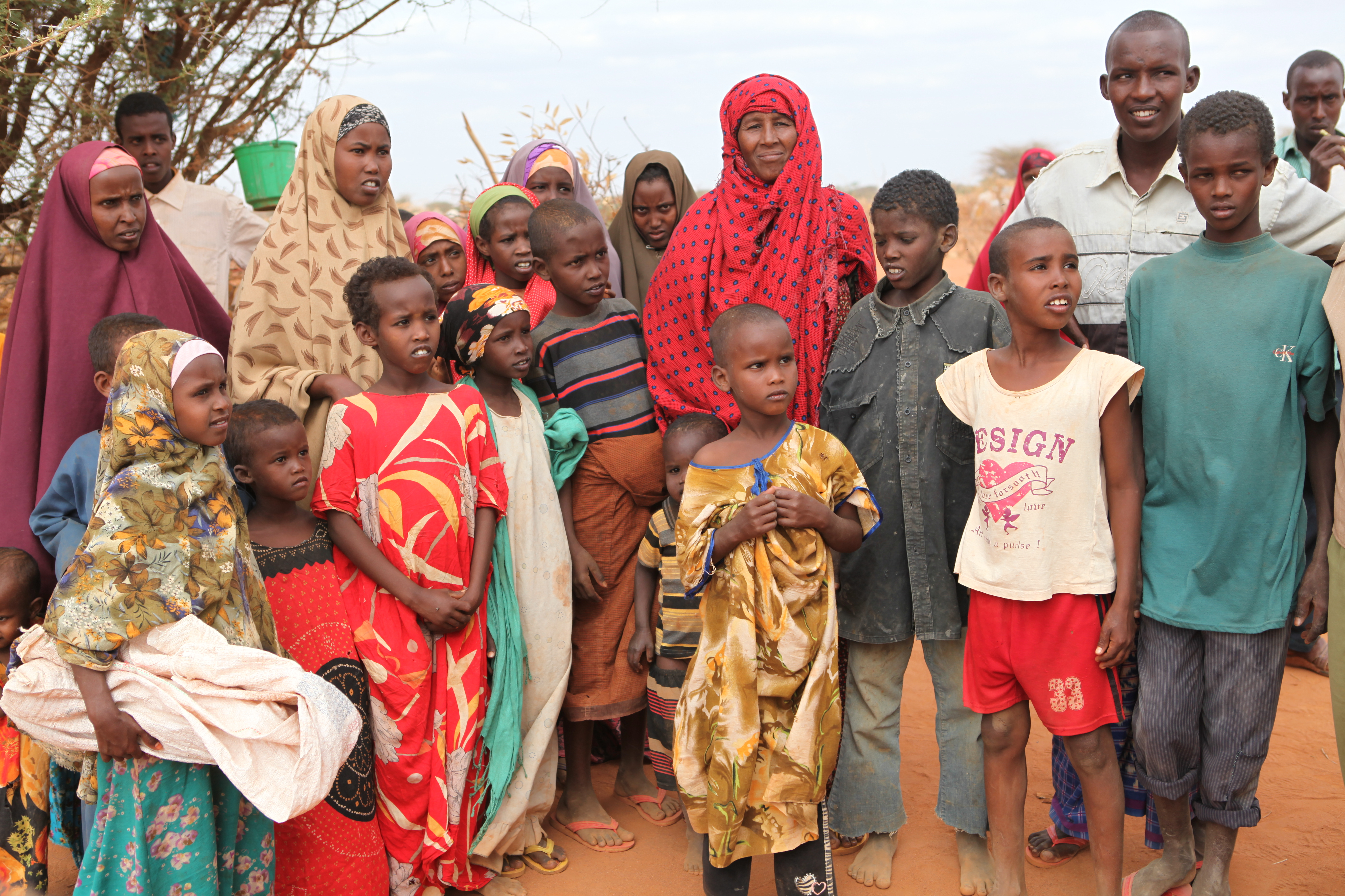 Madina Farah Yusuf arrived in Dadaab a week ago after walking for 10 days with her seven children. On the way she came across four other young children who had lost their parents. She took them in and brought them all to Dadaab, where they are now taking shelter under a tree: “We left Somalia in fear our lives. There was so much hunger and war. Bandits robbed us of our food and clothes on the way. I found these four young children as we came. They were on their own as their mother had died of starvation. We brought everyone here (Dadaab) as we thought we could get help. But we stay under this tree. . “It gets very cold at night, and the children cry. We only have one blanket. It is also unprotected out in the open. I worry that hyenas will attack the children. . “We drank some tea this morning, but we have very little food. The rations are not enough for everyone to eat everyday. We have some water (there is now an Oxfam pump a few hundred metres away) but we need shelter and toilets.""